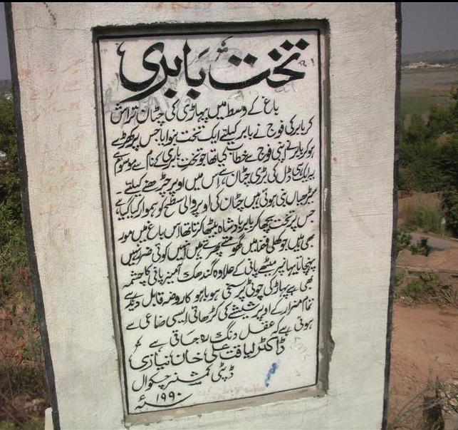 Takht-e-Babri